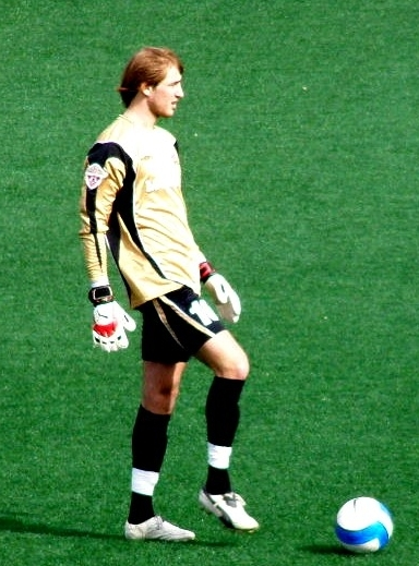 Anton Amelchenko in action for FC Moscow